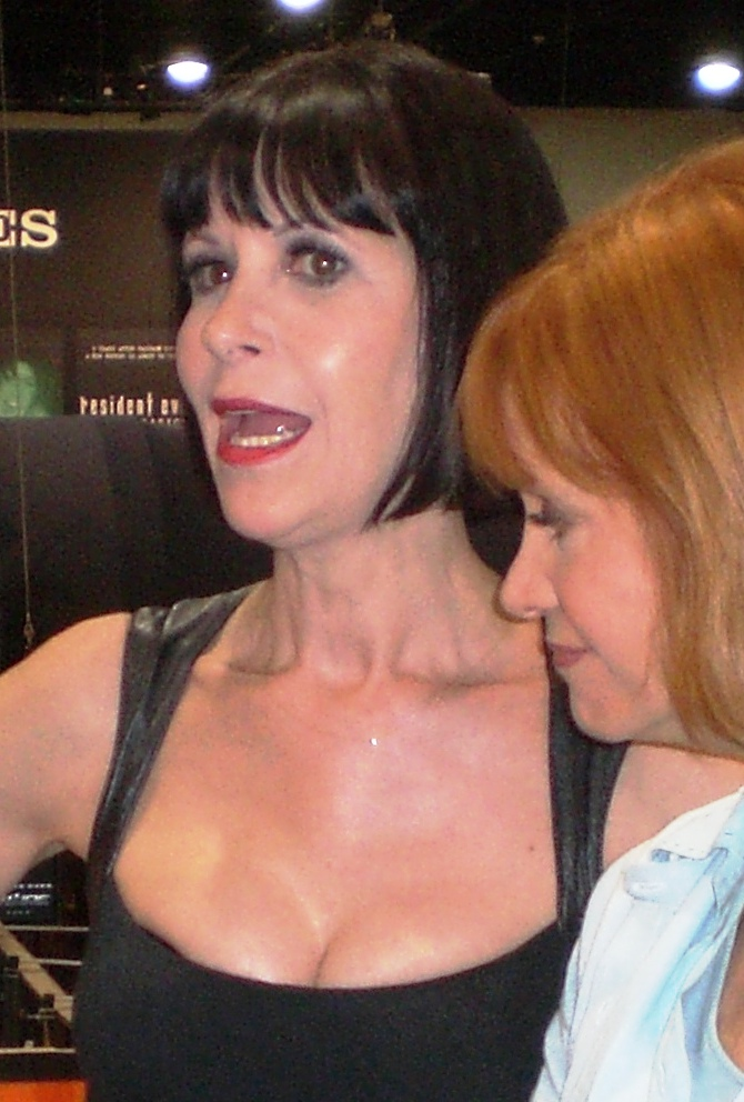 American singer and actress Ellen Greene.